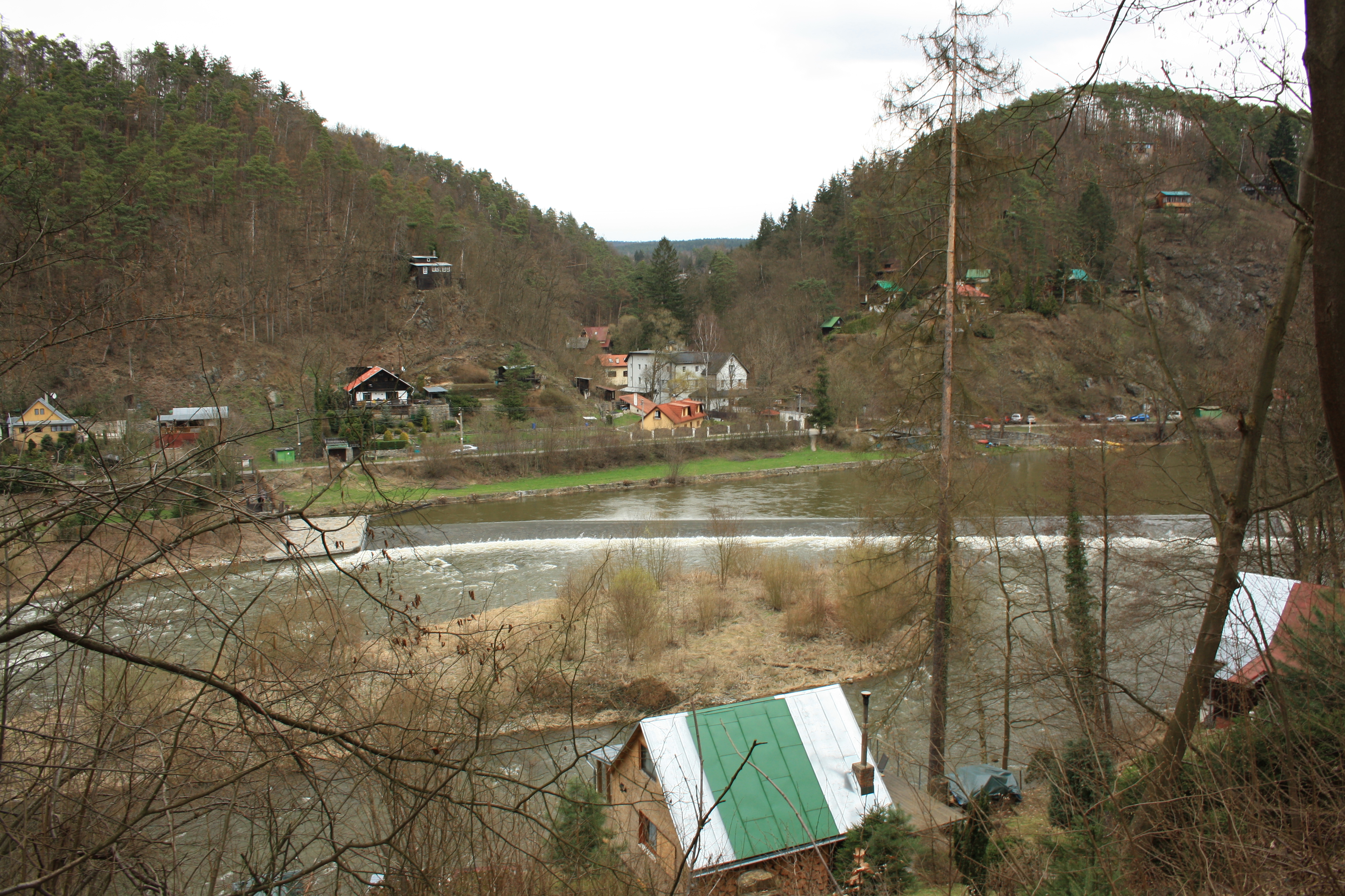 Žampach village and Sázava River, Central Bohemian Region, CZ